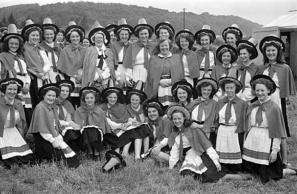 Teitl Cymraeg/Welsh title: Eisteddfod Genedlaethol 1947, Bae Colwyn Cyfrwng/Medium: Negydd ffilm / Film negative Cyfeiriad/Reference: (gcc90899) Rhif cofnod / Record no.: 3370771 Rhagor o wybodaeth am gasgliad Geoff Charles yn Llyfrgell Genedlaethol Cymru More information about the Geoff Charles Collection at the National Library of Wales Mae ffotograffau Geoff Charles hefyd yn rhan o Broject Europeana Libraries Geoff Charles' photographs also form part of the Europeana Libraries Project